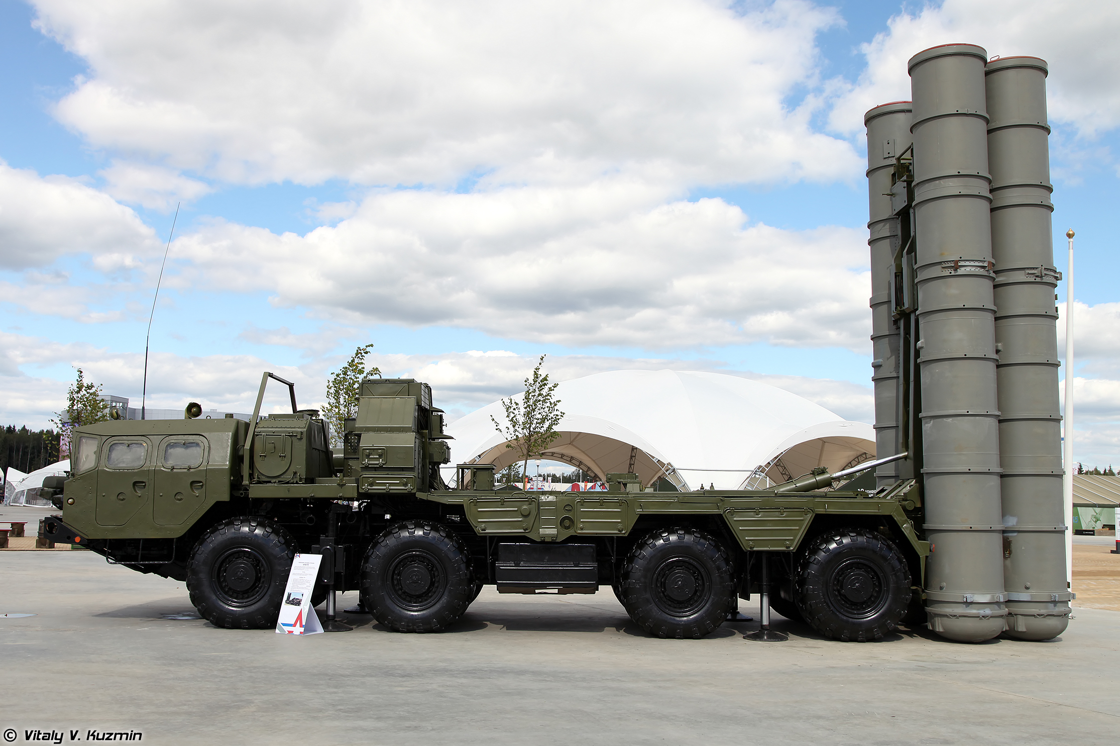 5P85SE2 TEL for S-300PM2 missile system